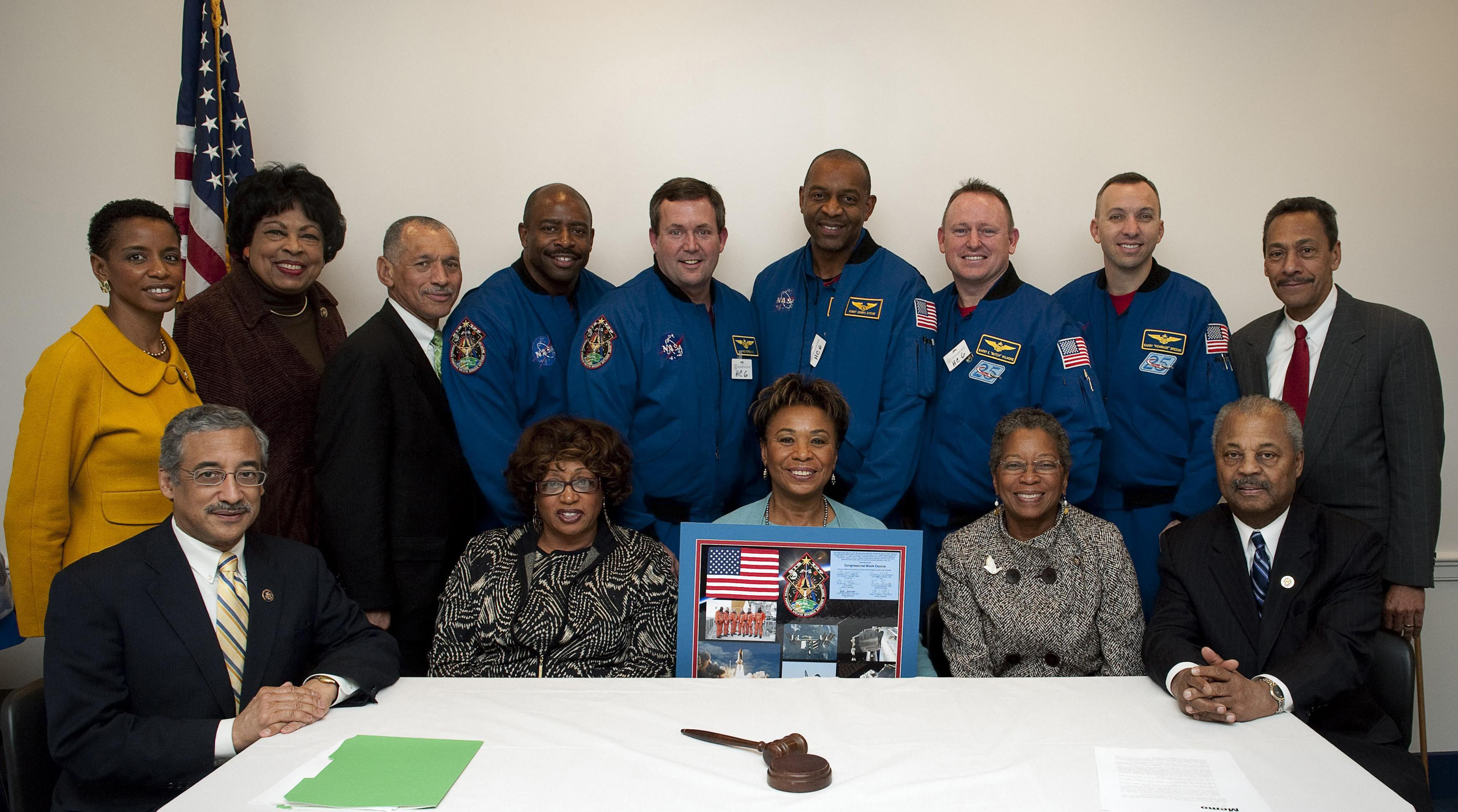 NASA Administrator Charles Bolden, the STS-129 space shuttle crew and members of the Congressional Black Caucus pose for a group photo at the Capitol Building in Washington. Back row from left to right: U.S. Rep Donna Edwards (D-MD), U.S. Rep Diane Watson (D-CA), NASA Administrator Charles Bolden, astronauts Leland Melvin, Mike Forman, Robert Satcher, Barry Wilmore, Randy Breznik, and U.S. Rep Mel Watt (D-NC). Front row from left to right: U.S. Rep Robert Scott (D-VA), U.S. Rep. Corrine Brown (D-Fla), U.S. Rep. Barbara Lee (D-CA), U.S. Rep. Donna Christensen (D-VI) and U.S. Rep. Donald Payne (D-NJ). The crew of STS-129 presented the CBC with a montage commemorating the shuttle mission.